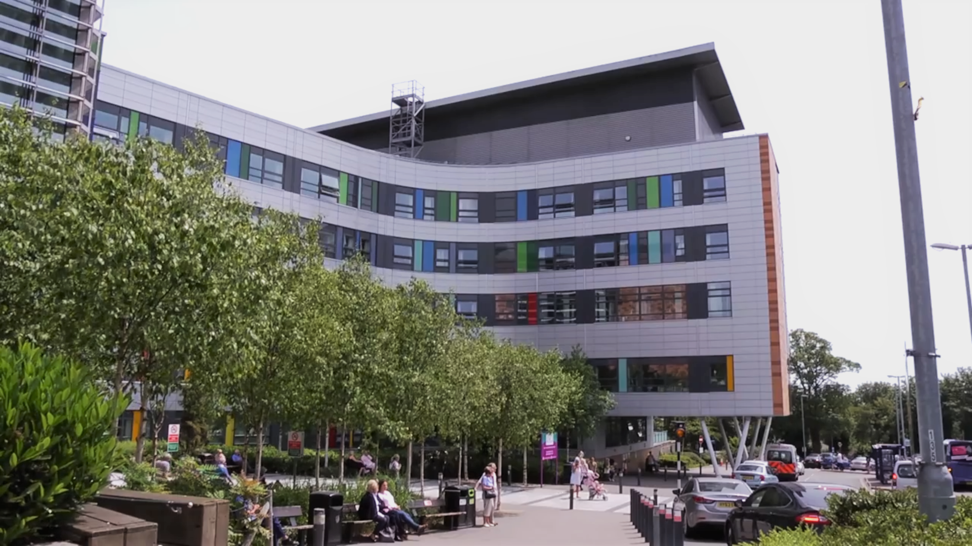 Queen Alexandra Hospital photograph